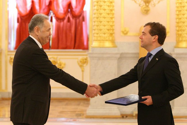 Ambassador of the Republic of Turkey Aydin Adnan Sezgin presents his letter of credence.